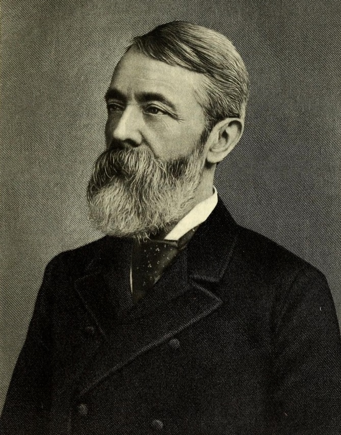 John W. Rowell (Vermont Supreme Court Justice)